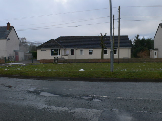 Memorial Hall, Groes